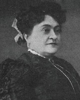 Spanish Actress Pilar Vidal